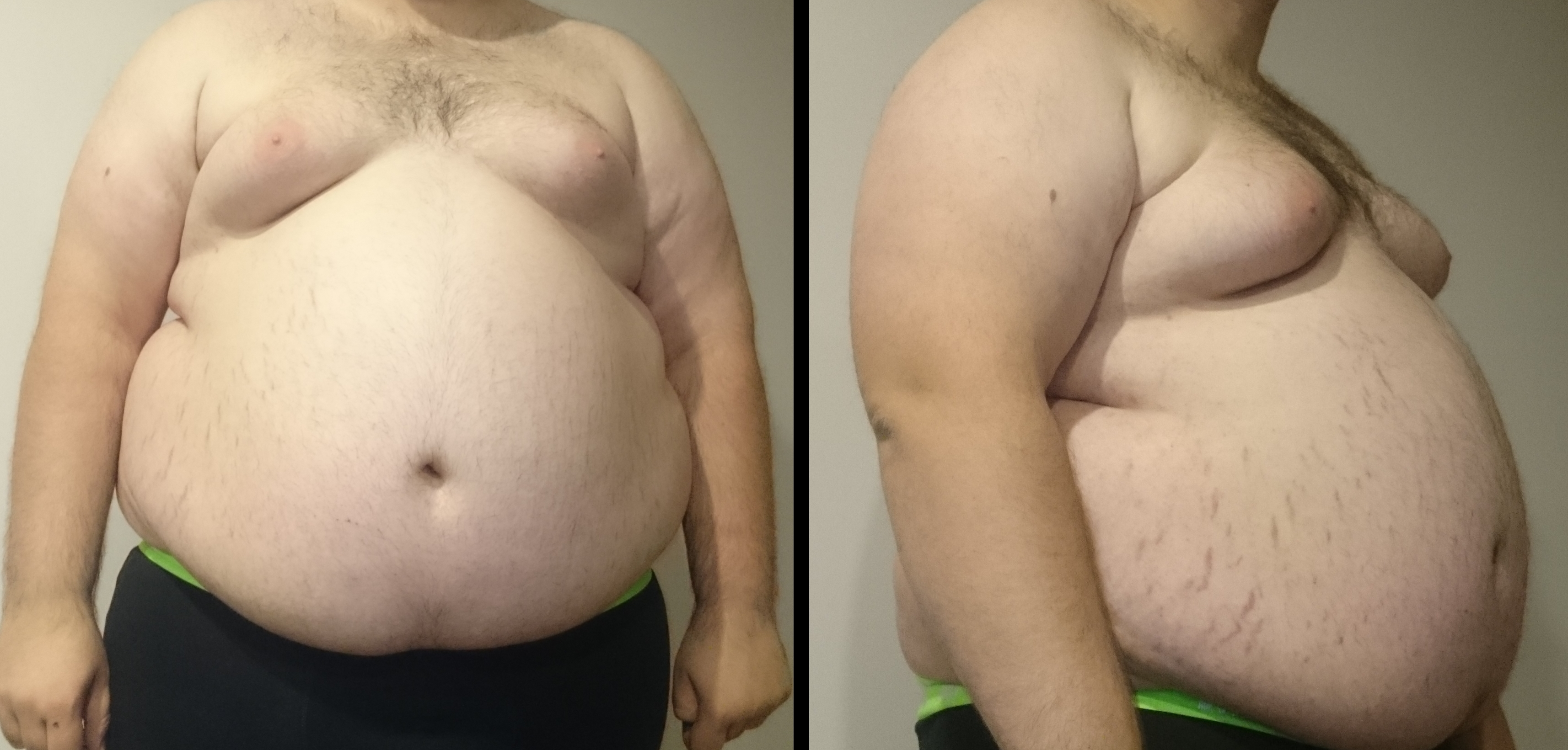 Picture of an Obese Adult Male - Mid 20s (182kg/400lb), BMI 52.8.